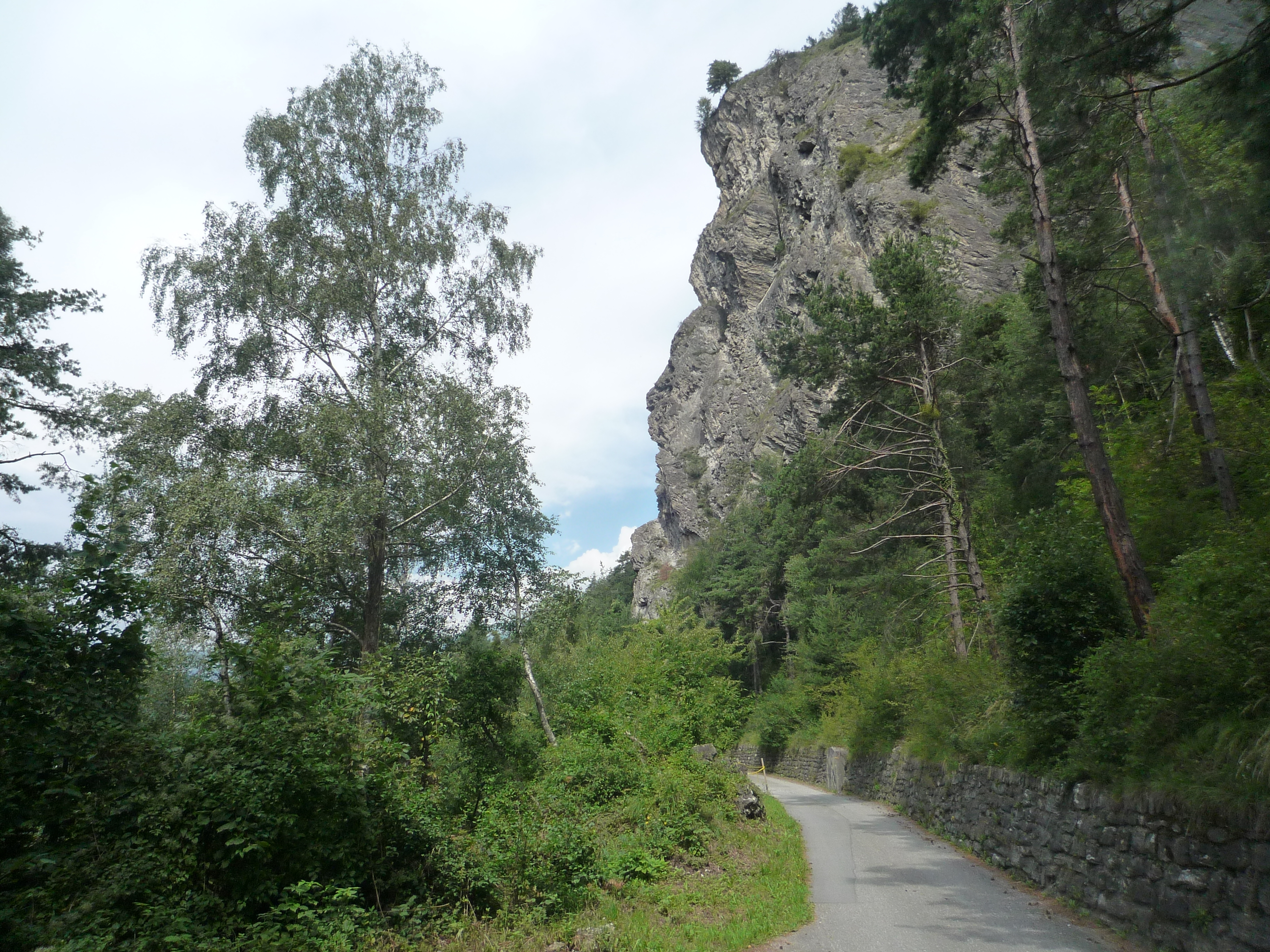 Trail near Rothenbrunnen, Graubunden, Switzerland: GPH Polenweg Juvalta Süd